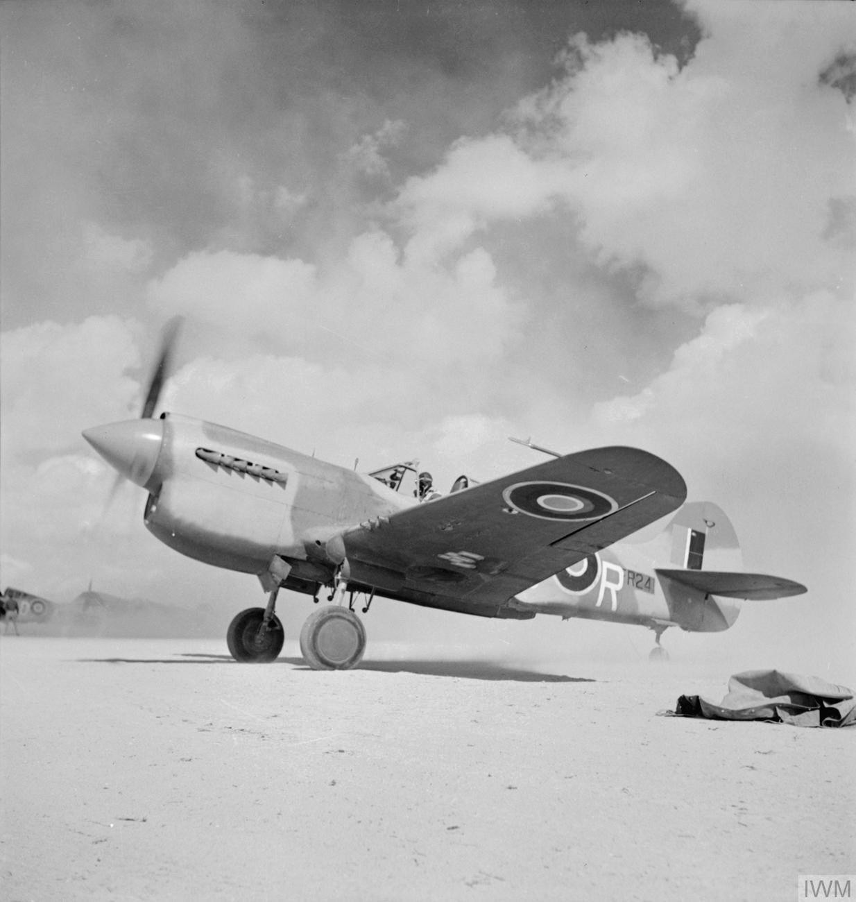 IWM caption : Kittyhawk Mark III, FR241 ‘LD-R’, of No. 250 Squadron RAF, taxying at LG 91, Egypt, during Operation LIGHTFOOT, the first phase of the Alamein offensive. FR241 is an early ‘short-tail’ Mark III with a dorsal fin, which also served later with No. 112 Squadron RAF.